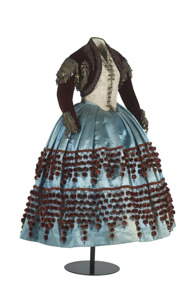 Maja or Manola dress.